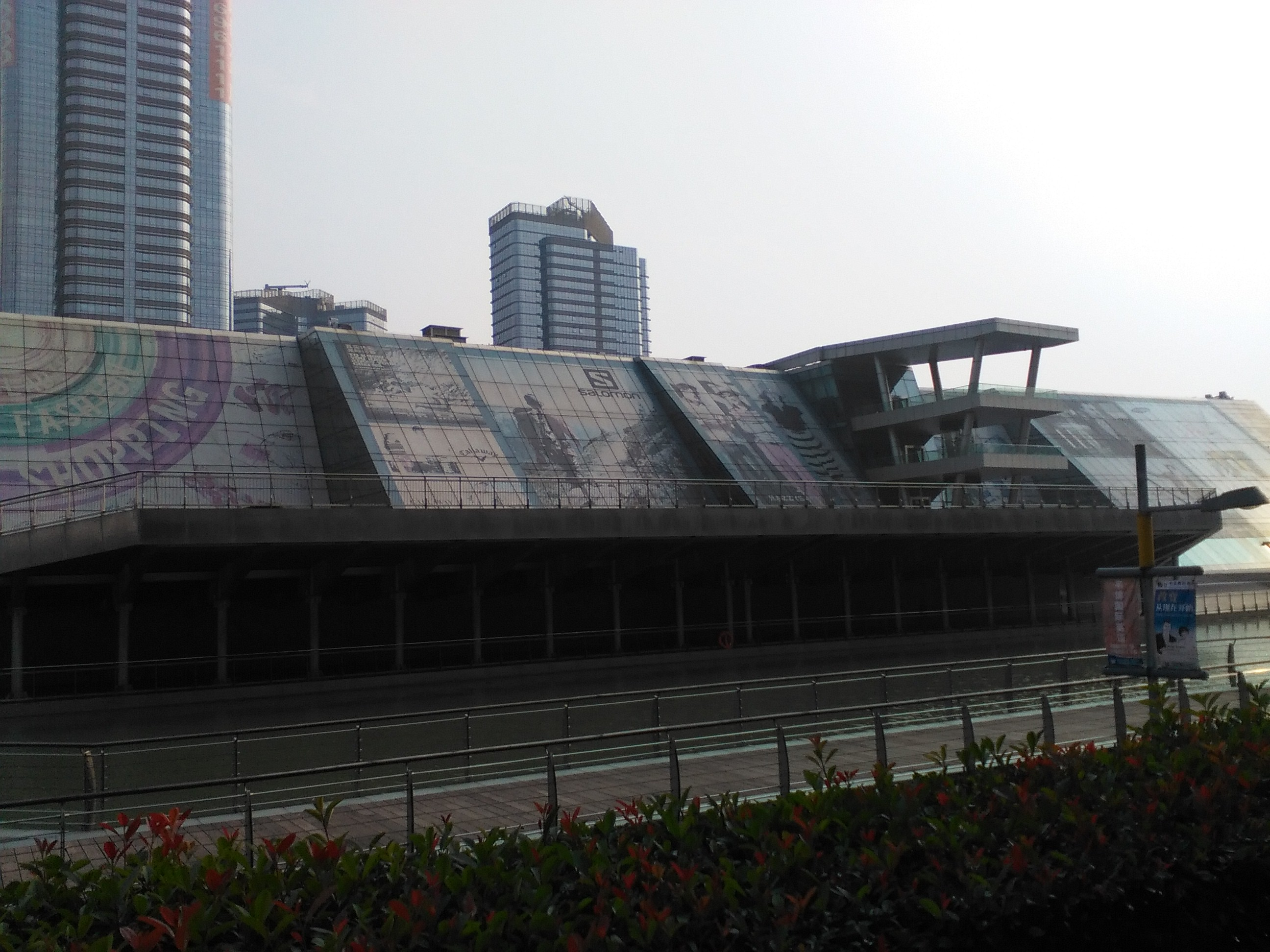 Jiuguang Department Store in Suzhou